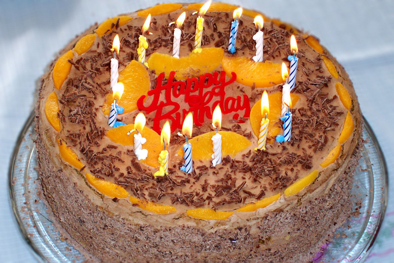 A photograph of a birthday cake with 15 candles